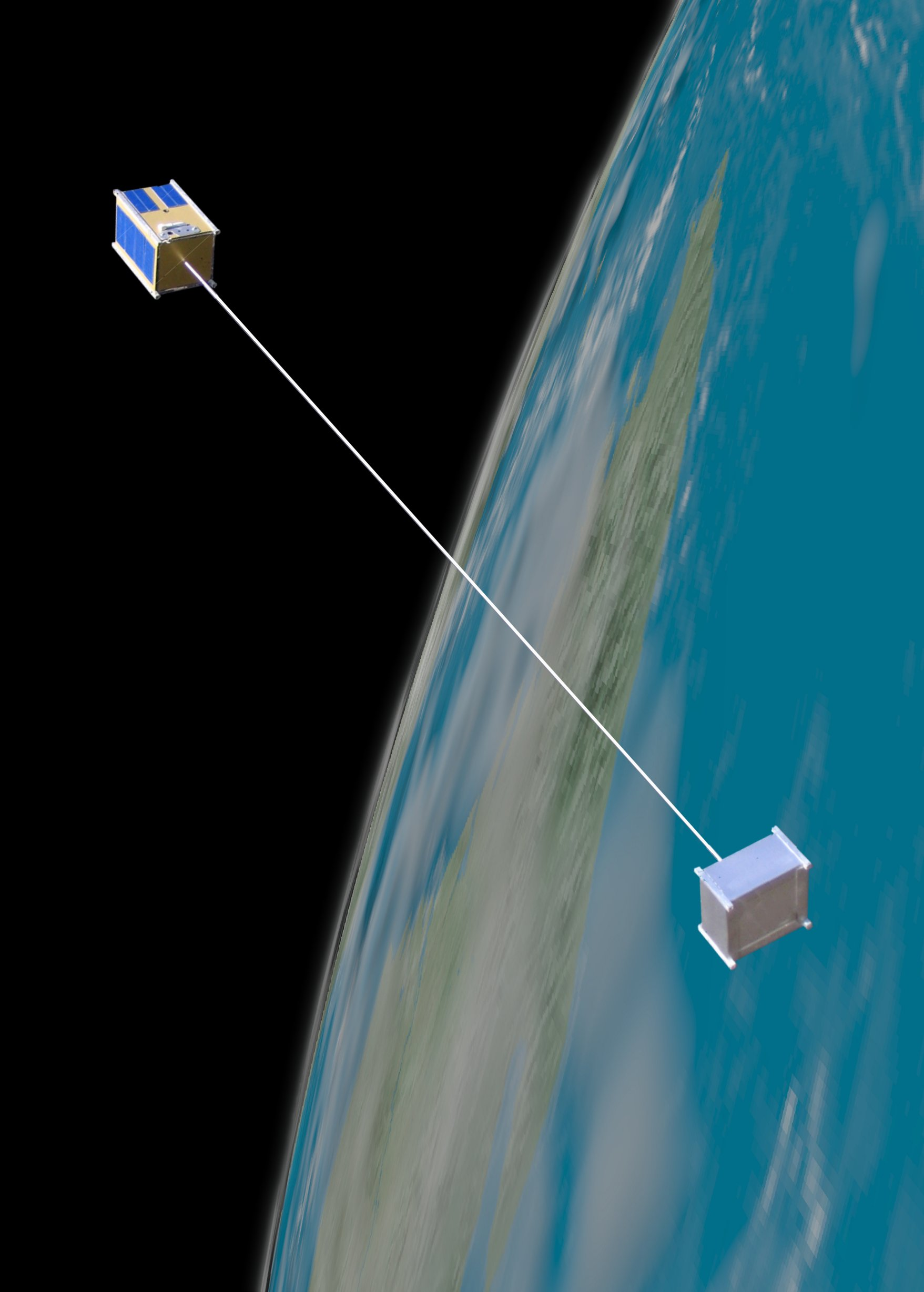 Artist view of TEMPO3 in orbit created by CL Vancil.